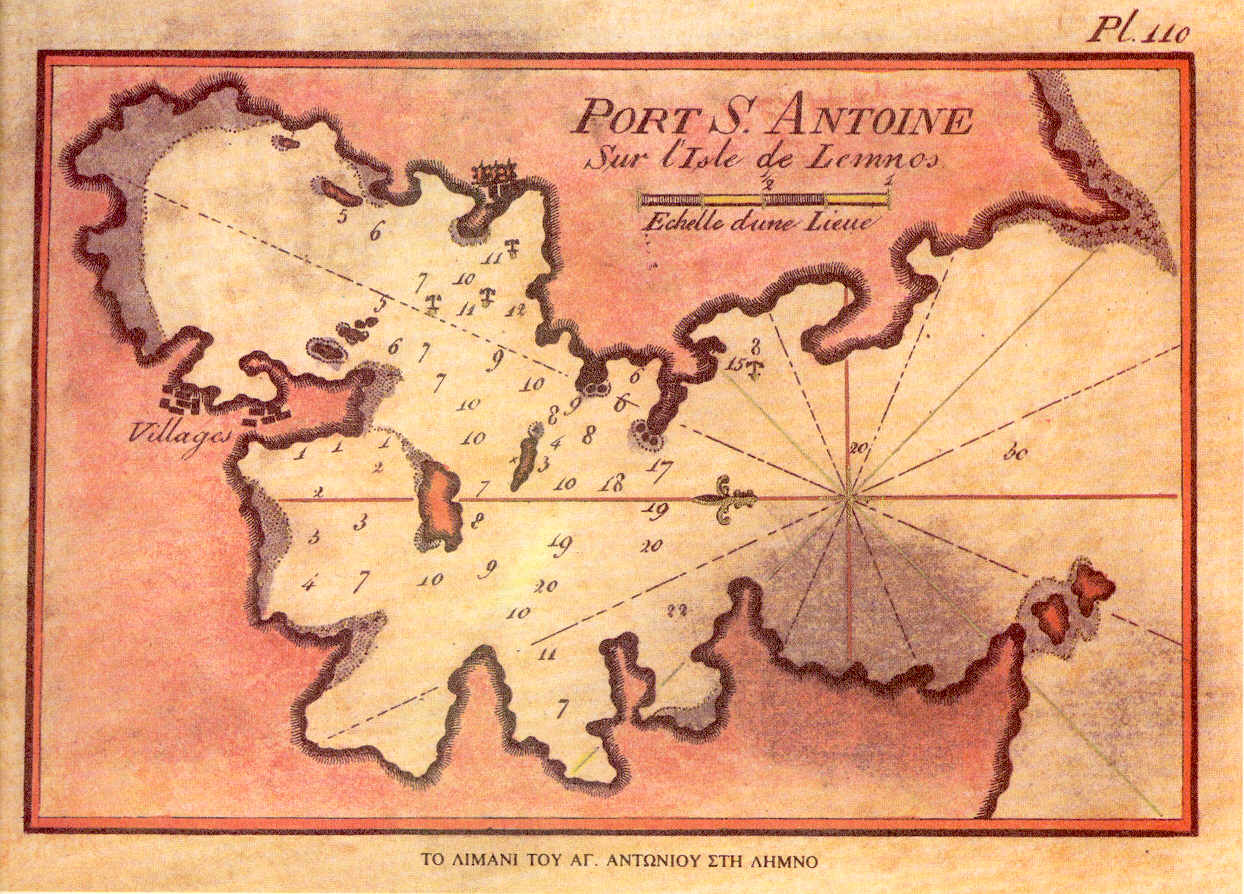 Old chart of Moudros Bay, Limnos Island, Greece. In the past it was also called Port St. Antonio (See New piloting directions for the Mediterranean sea, the Adriatic, or Gulf of Venice, the Black sea, Grecian archipelago, and the seas of Marmara and Azof by John William Norie, 1831, p. 226.)